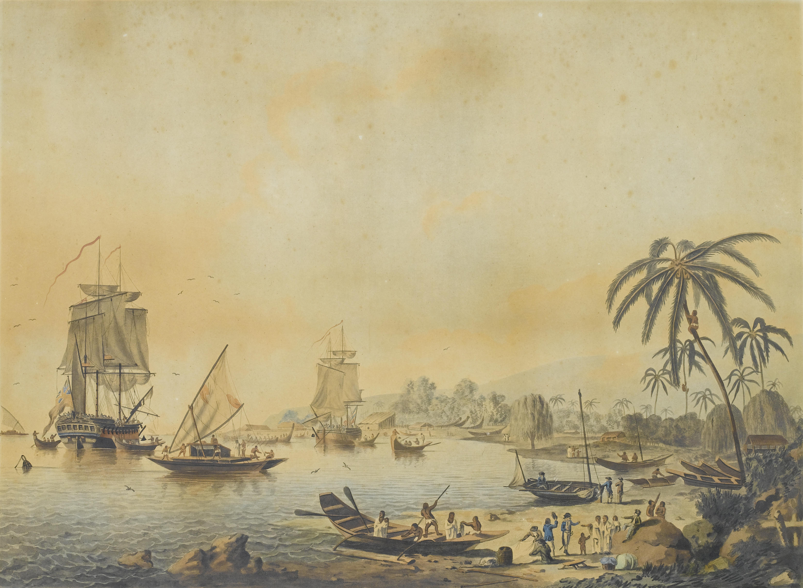 Views of the South Seas, a set of four. 1. View of Huaheine, one of the Society Islands; 2. View of Morea, one of the Friendly Islands; 3. View of Charlotte Sound in New Zealand (sic, actually a view in Matavai Bay, Tahiti); 4. View of Owhyhee, one of the Sandwich Islands (also known as 'The Death of Cook') hand-coloured aquatints published by F. Jukes in 1787-88. 43 x 59cm (16 15/16 x 23 1/4in) (image size) (4). This rare set of four aquatints relates to Cook's Third Voyage. The watercolours from which these prints were engraved were painted by James Cleveley, carpenter on HMS Resolution. According to the imprint on the aquatints, the original sketches were repainted by James's brother, John, in London.